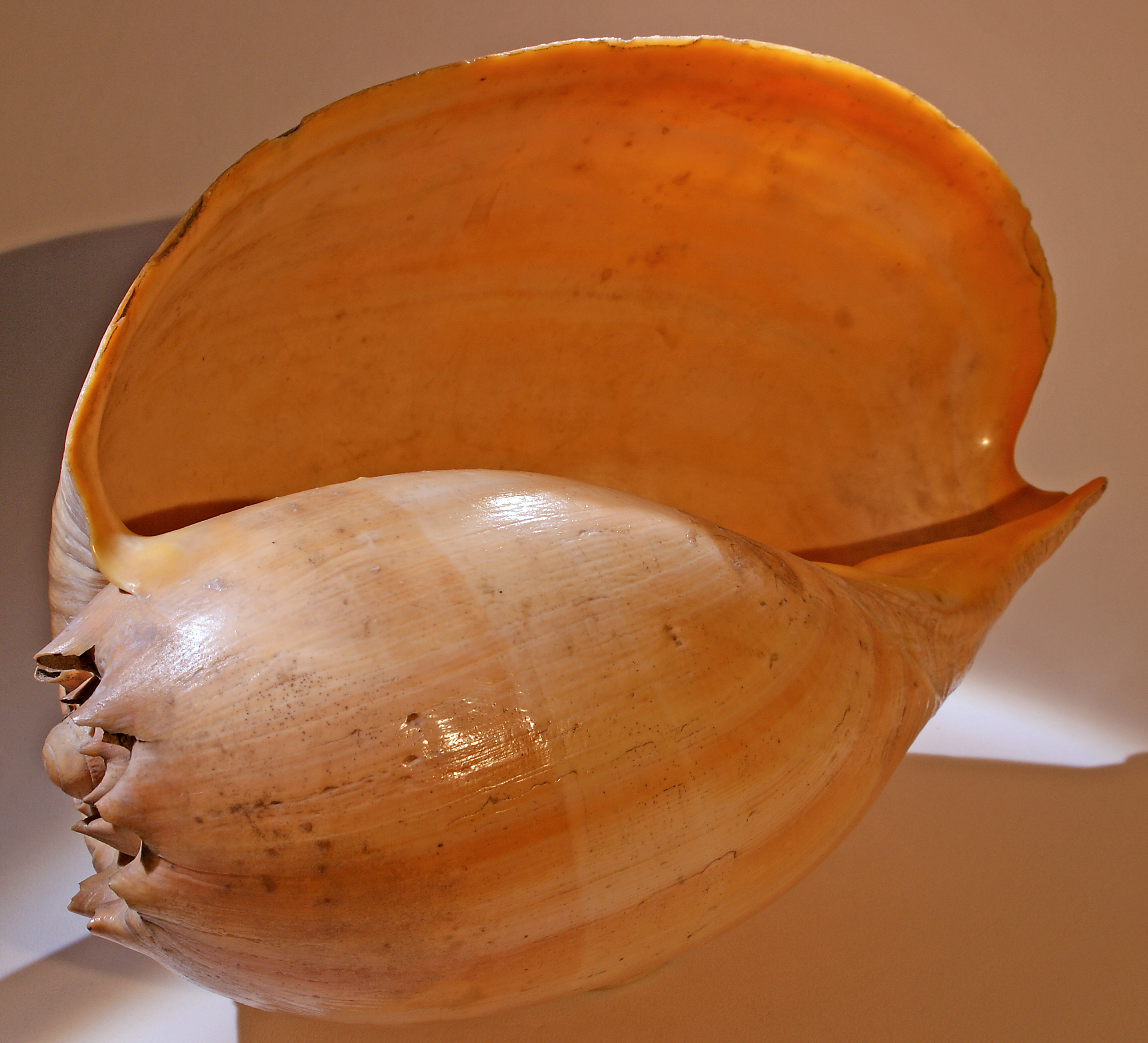 A shell of Melo aethiopicus from the Indian ocean (23cm)